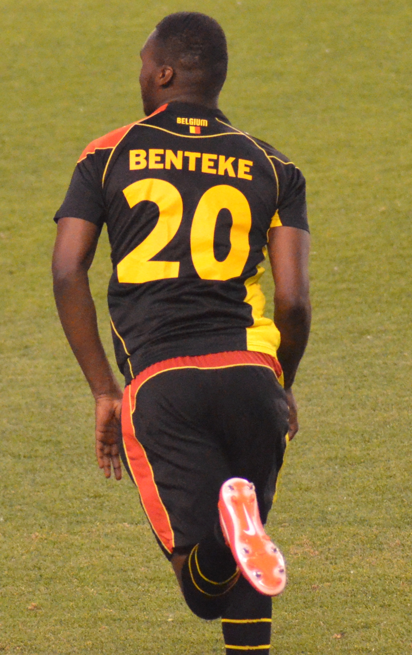 FirstEnergy Stadium Home of the Cleveland Browns